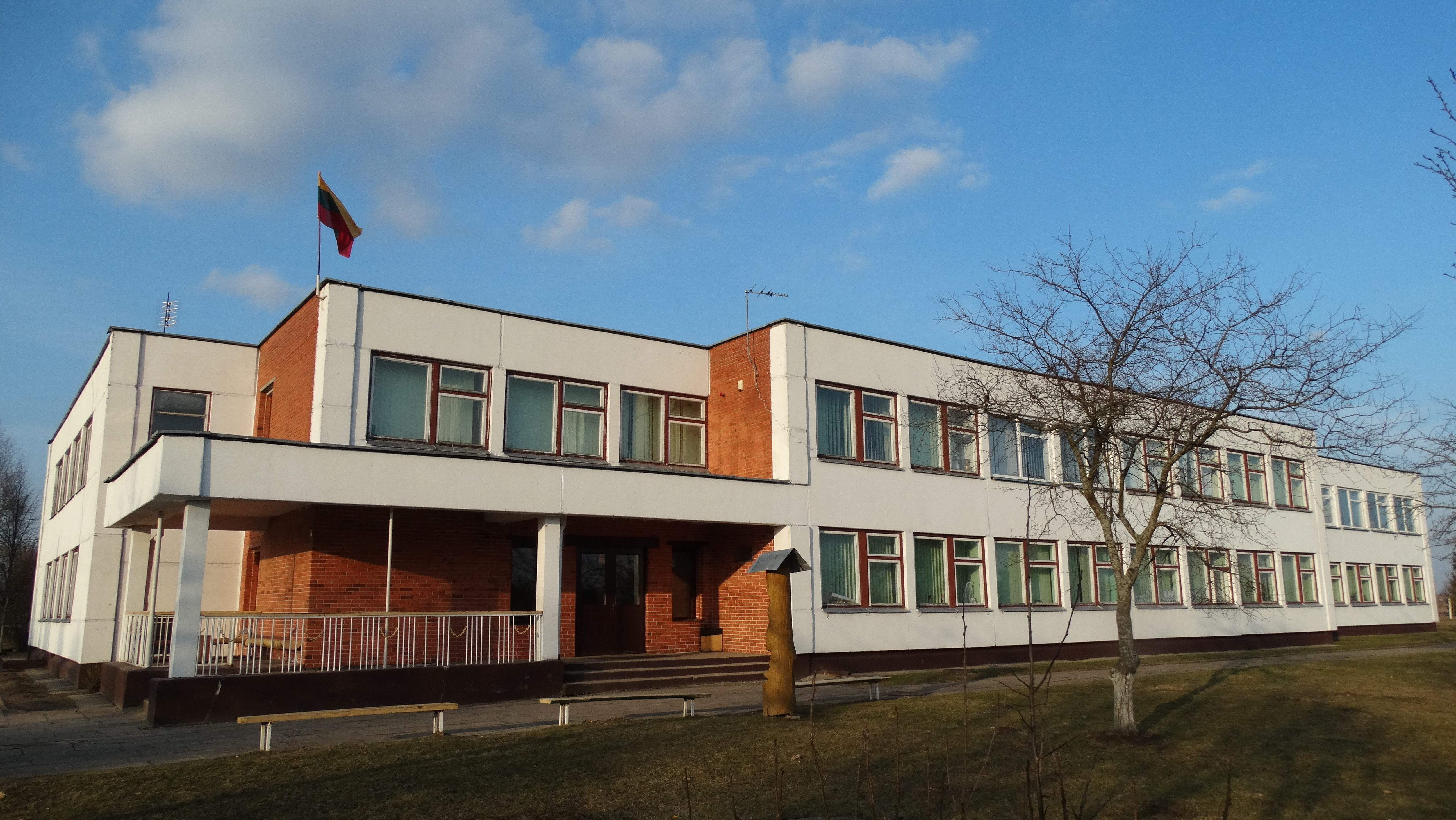 Basic school in Šimkaičiai, Jurbarkas district, Lithuania